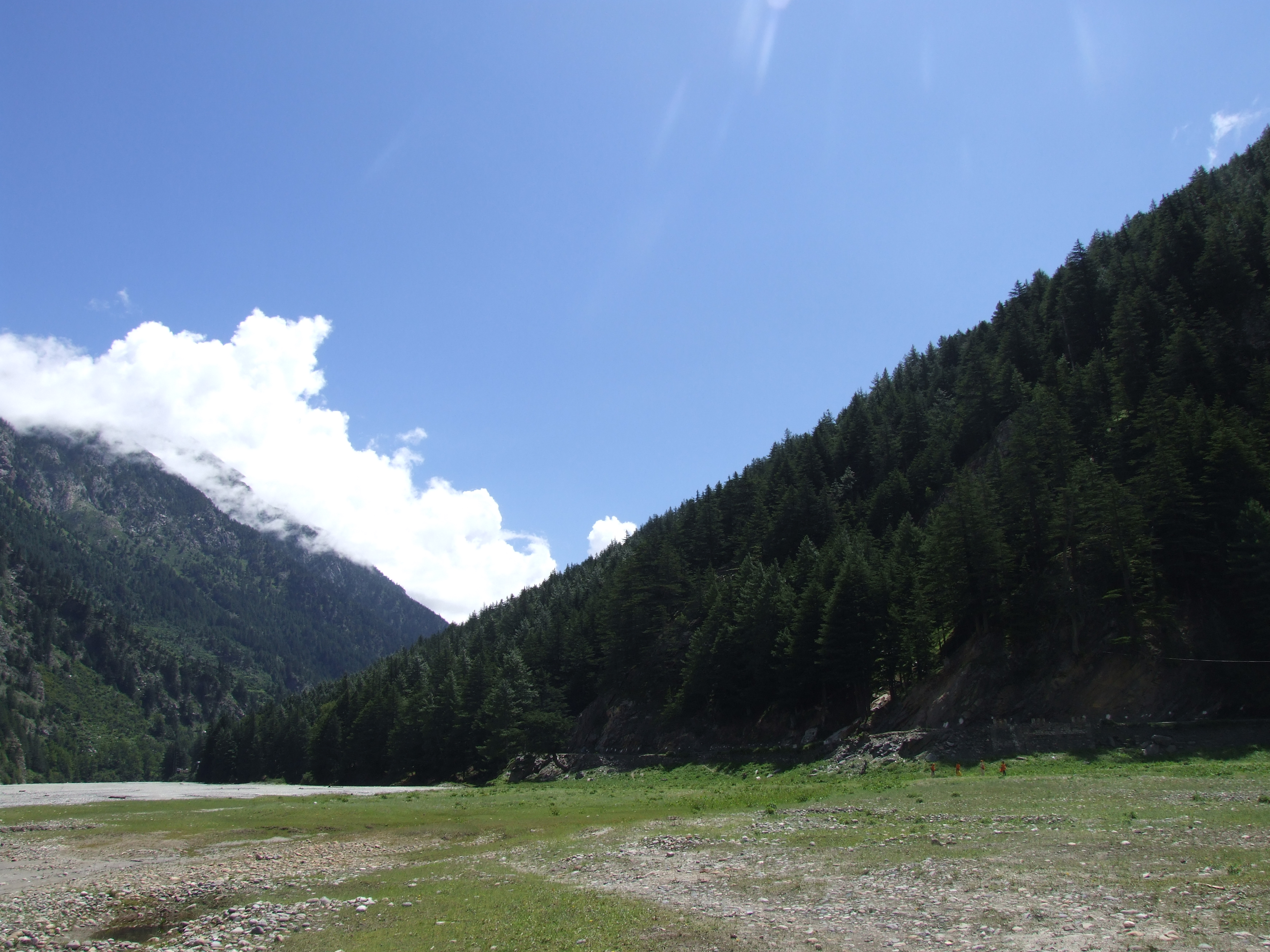 Jaisingh Rathore